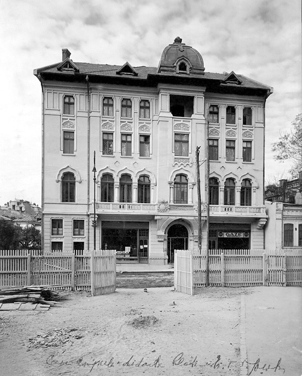 Primary teachers house of Ploieşti or Casa corpul Didactic. The building is located in strada Stefan cel Mare at n°8, Ploieşti, Judeţul Prahova, Romania. Classified historical monument, It has been preserved but partially damaged by the earthquakes of the years 1940. It is not sheltering anymore the teachers house, and since a long time. It is now closed and beeing worked since 2008. We are the only heirs and descendants of Toma T. Socolescu (died in 1960 in Bucharest) and therefore owner of all his intellectual rights.